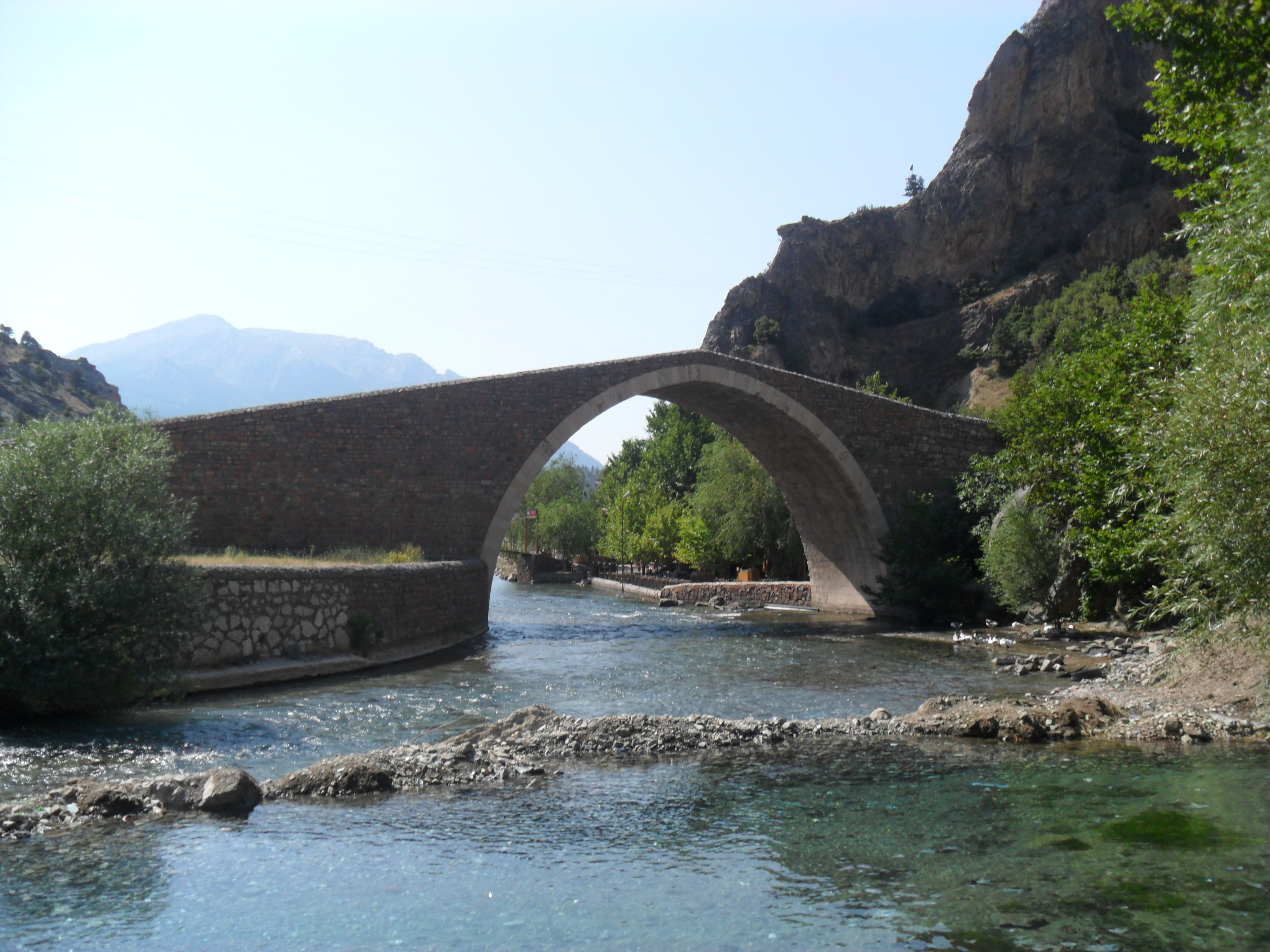 Şekerpınarı Bridge in the Toros Mountains, Turkey